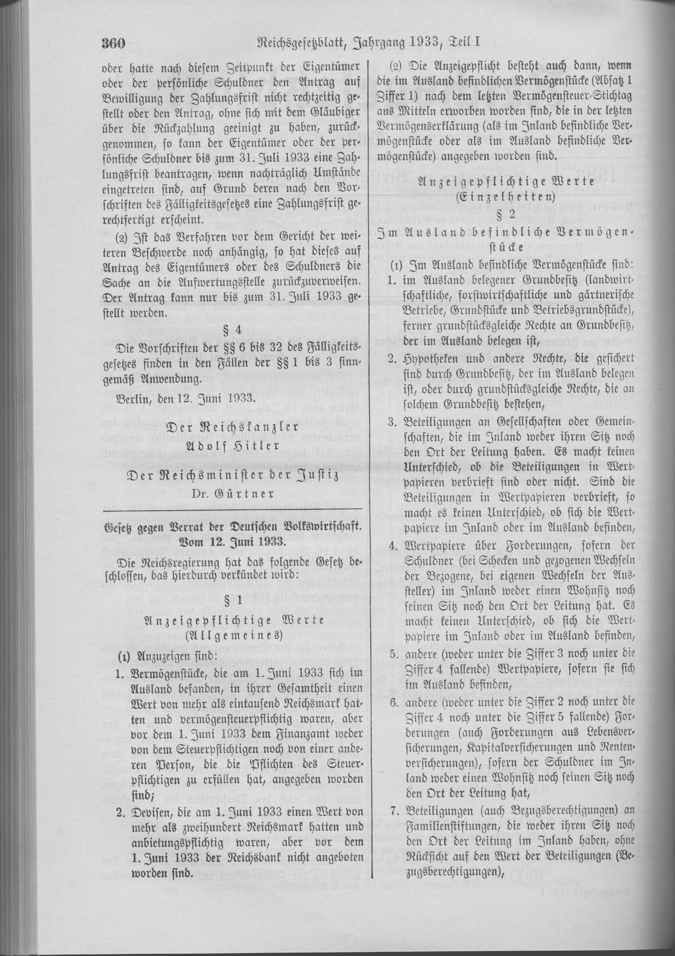 Scan from the Imperial Law Gazette of Germany, 1933, part 1